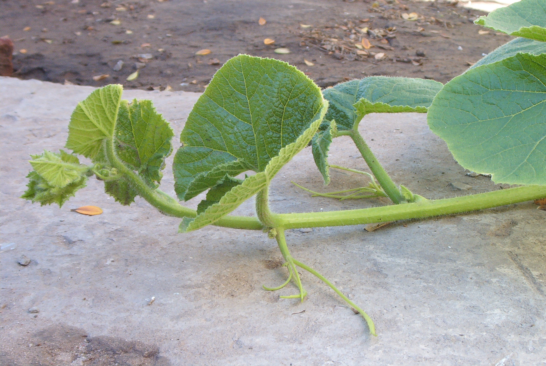 Cucurbita maxima, showing detail of decumbent apex and tendrils attachment. Argentinean winter squash landrace "zapallo plomo".